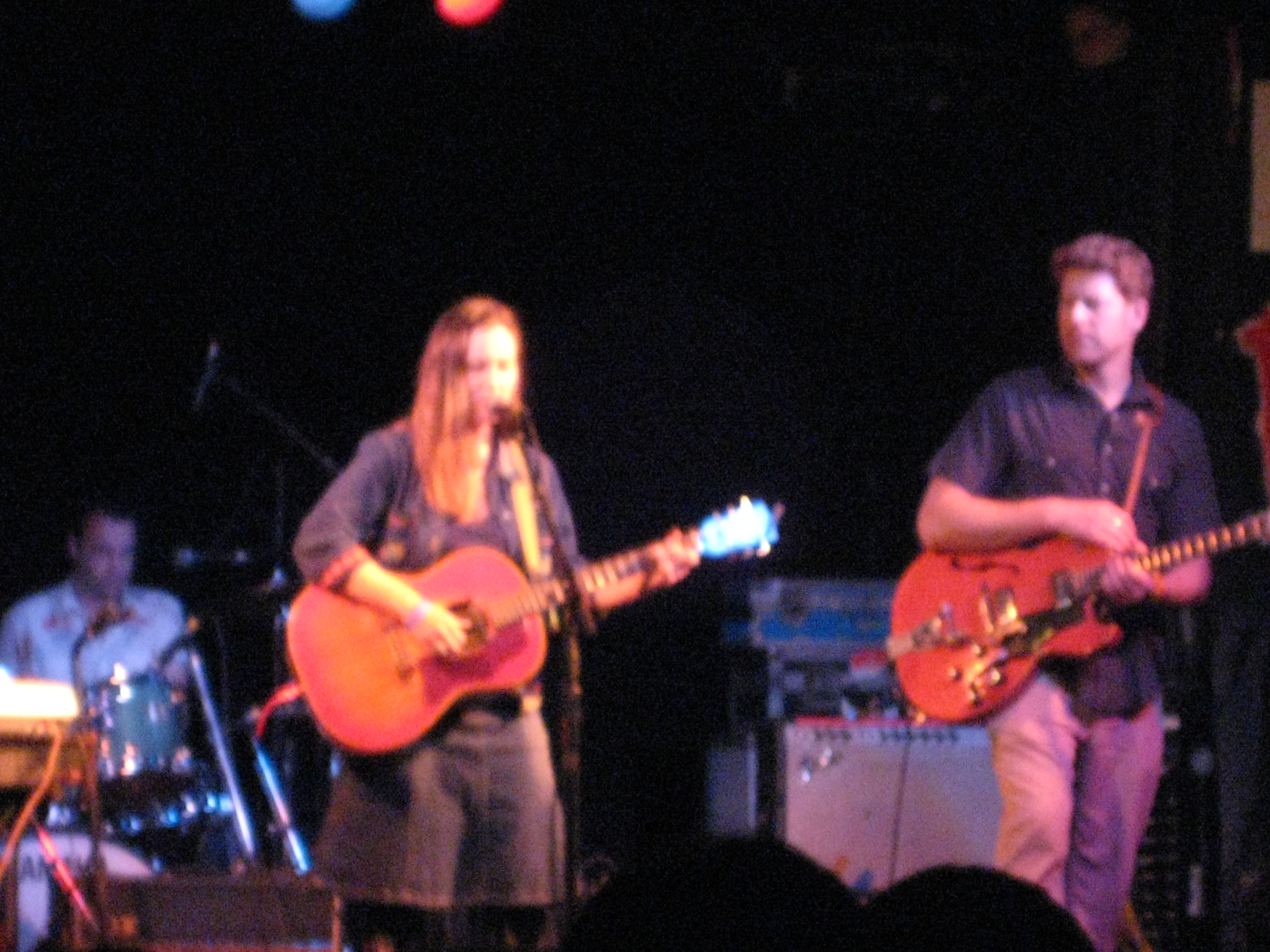 Oh Susanna performing at the 2007 NXNE festival in Toronto